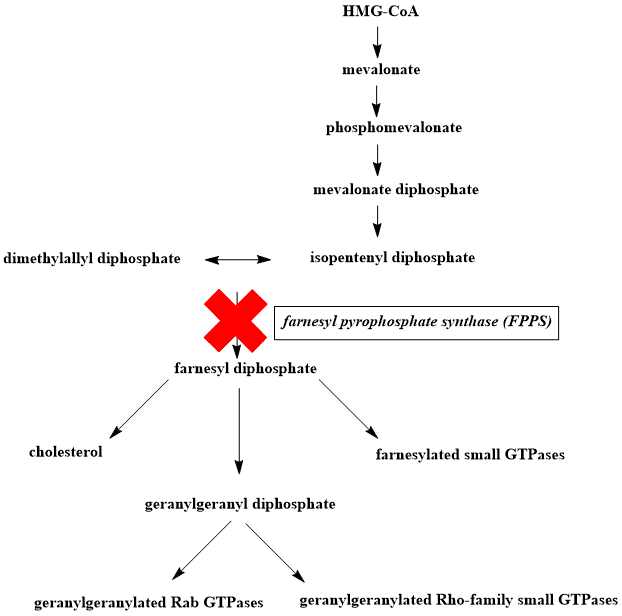 The mevalonate pathway and the inhibition of the key branch-point enzyme FPPS.